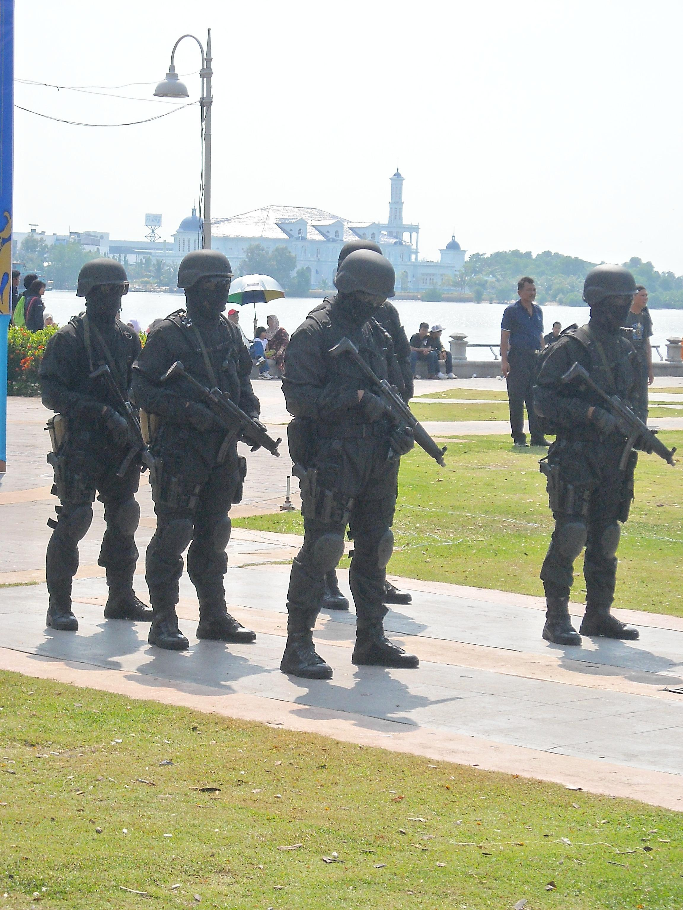 An UNGERIN counter-terrorist operators at standby. They are arms with MP5 submachineguns.